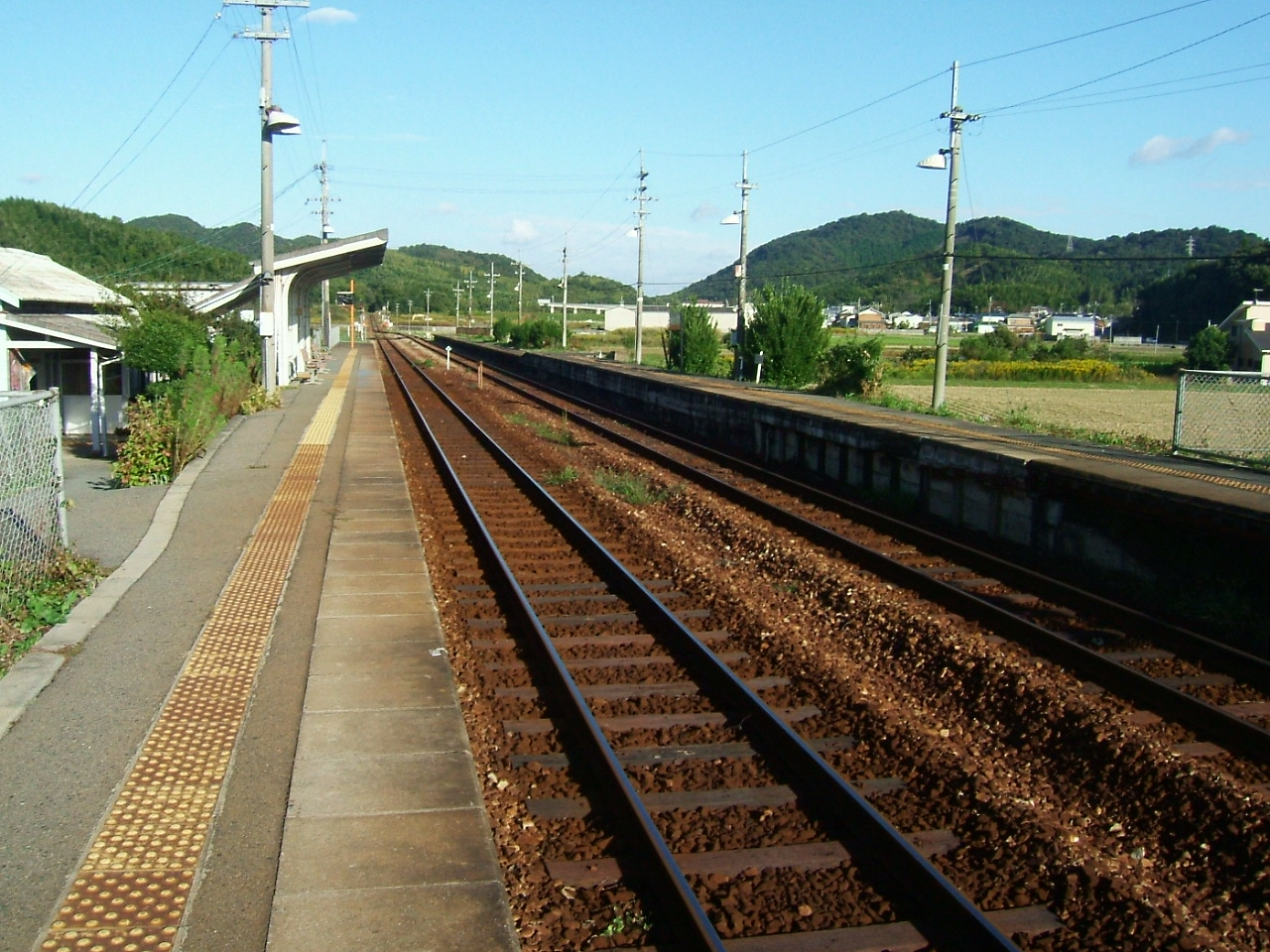 JR Kishin-Line Ooichi-station Platform. 太市駅